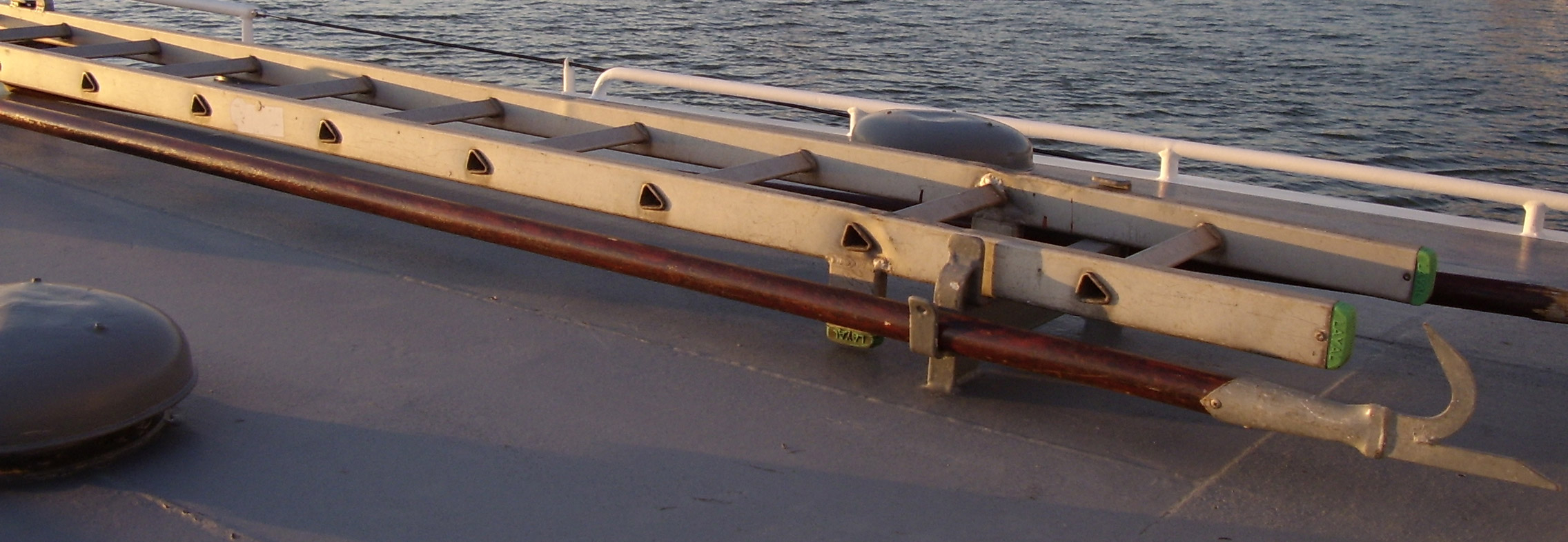 a boathook